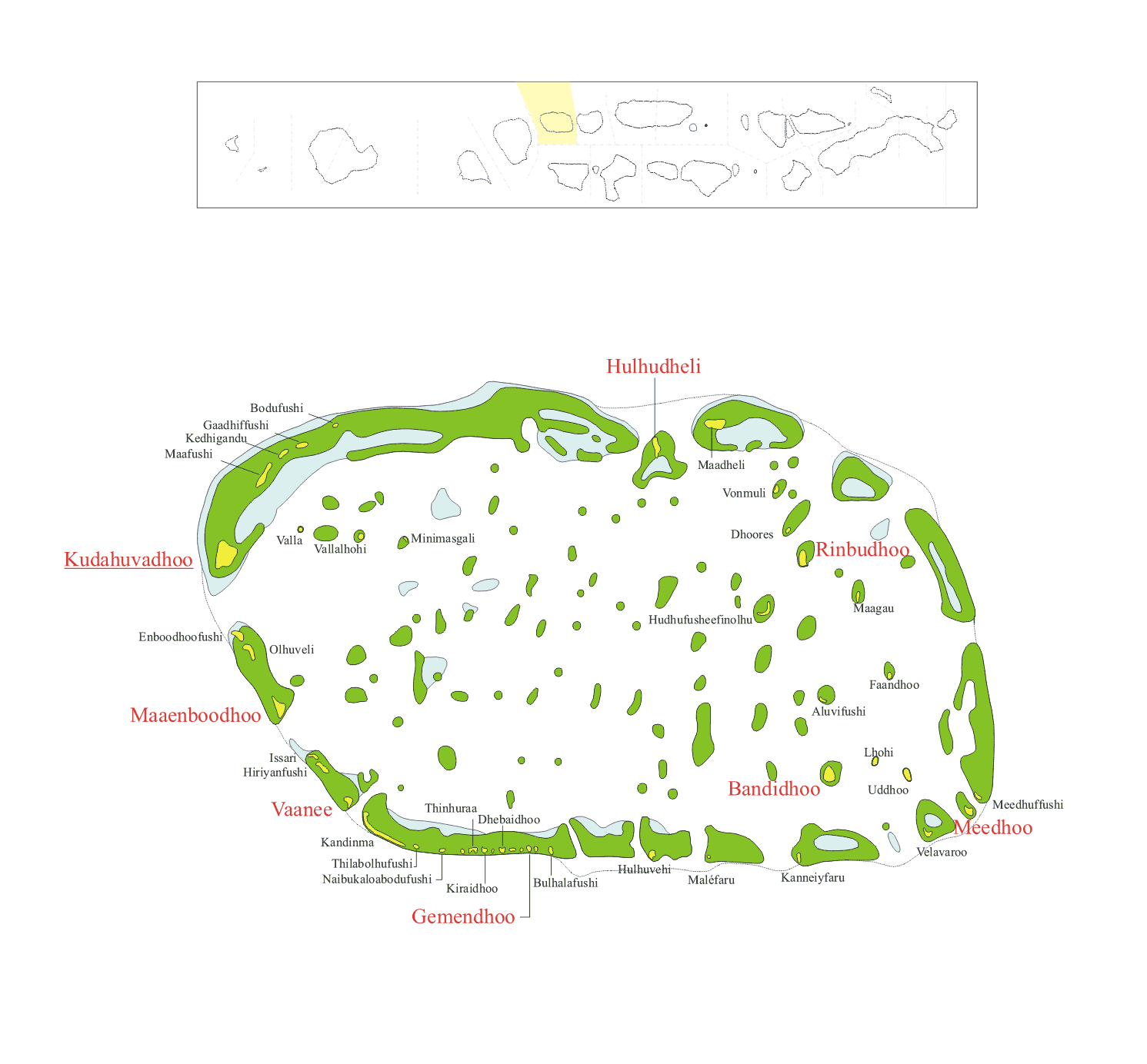 Summary Map of Alif_Dhaal_Atoll Map originally vector'ed by Hassan Waheed, Aabaadhuge of Thinadhoo island. Note: This section of map was extracted and its text was romanized by Oblivious. Special assitance by Waddey and Zuru Converted to PNG by helix84 source: Image:Alif_Dhaal_Atoll.jpg